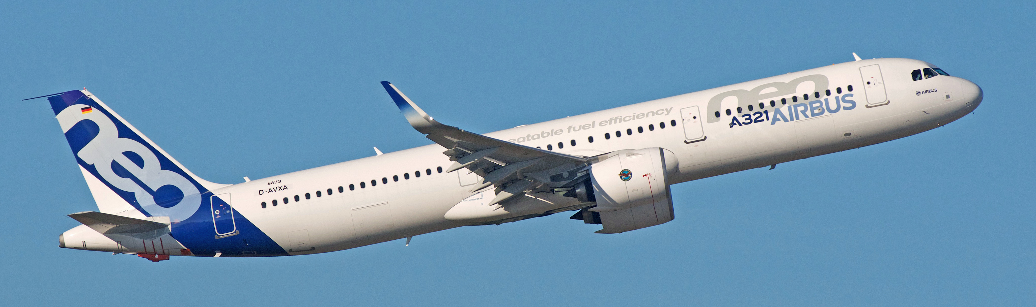 A321neo test-bed on a low gears-up departure from Toulouse.